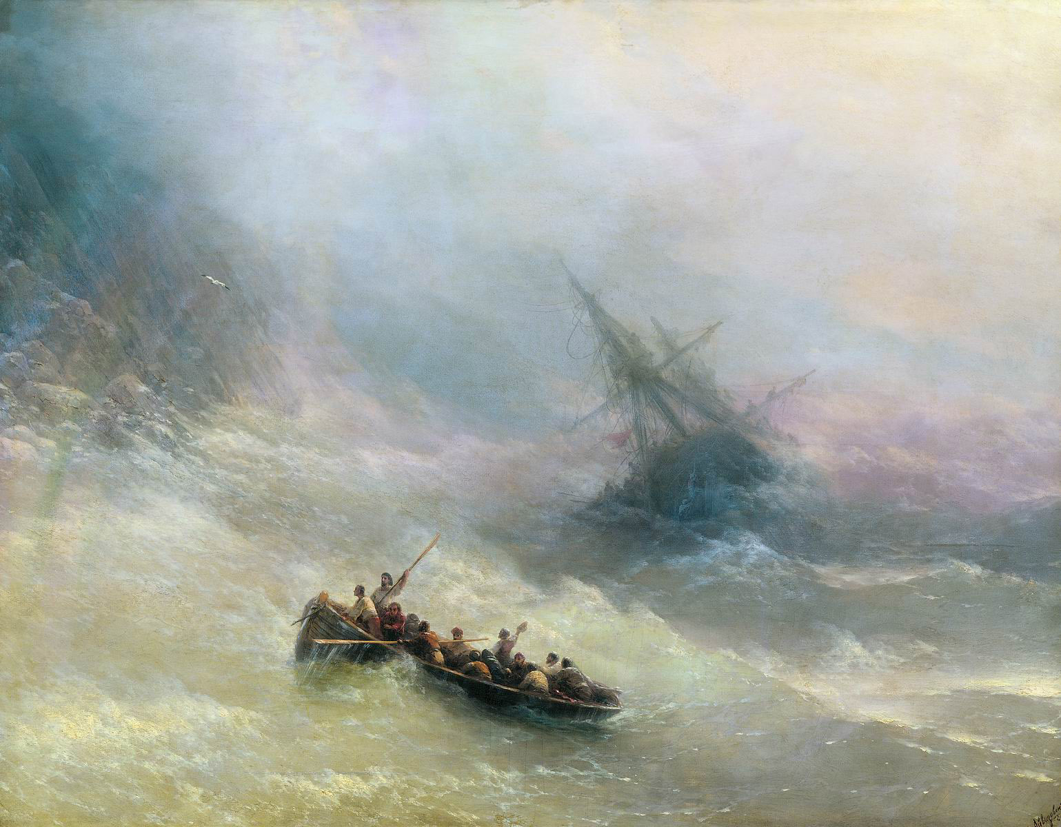 Rainbow